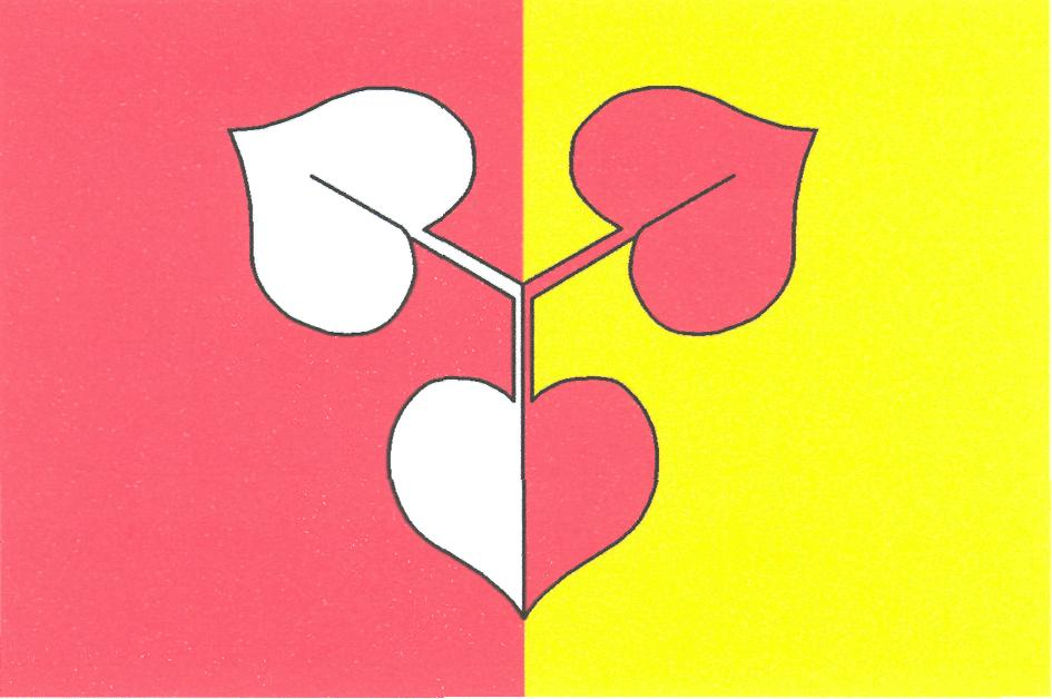 Municipal flag of Tehovec village, Prague-East District, Czech Republic.